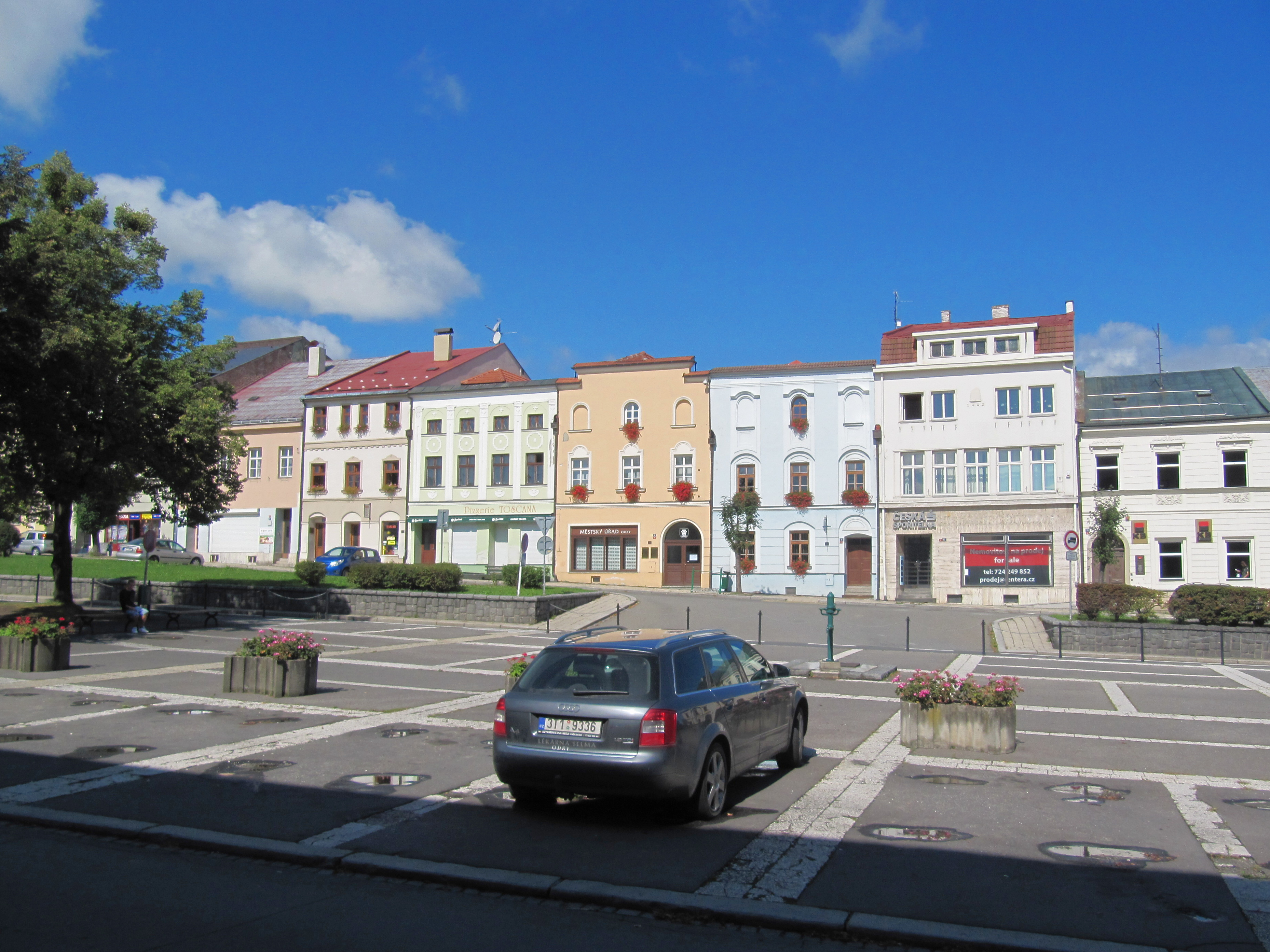 Odry in Nový Jičín District, Czech Republic. Square Masarykovo náměstí, north-west.